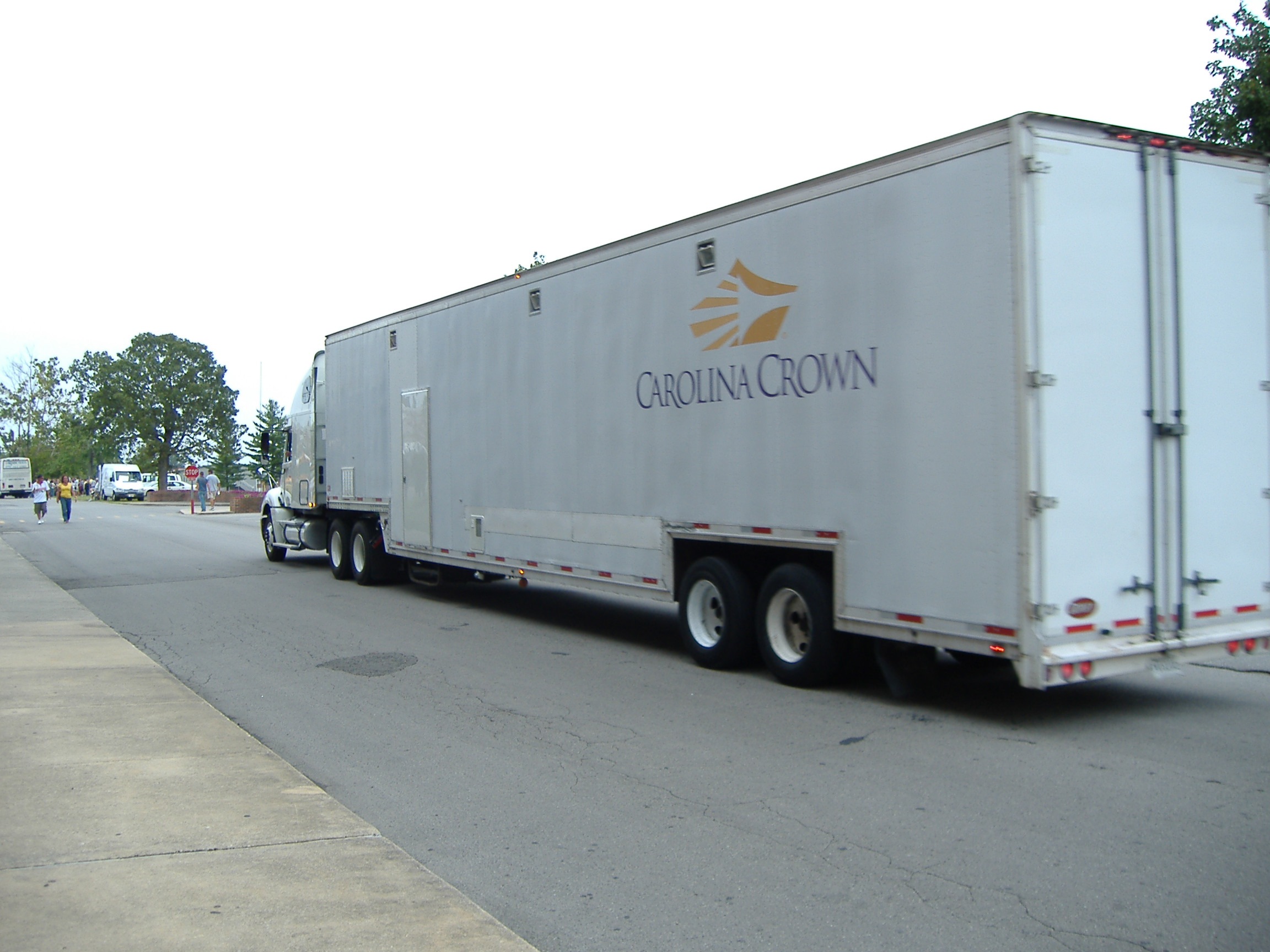 One of the semi trucks from Carolina Crown, photographed at the 2006 DCI contest in Cookeville, TN.